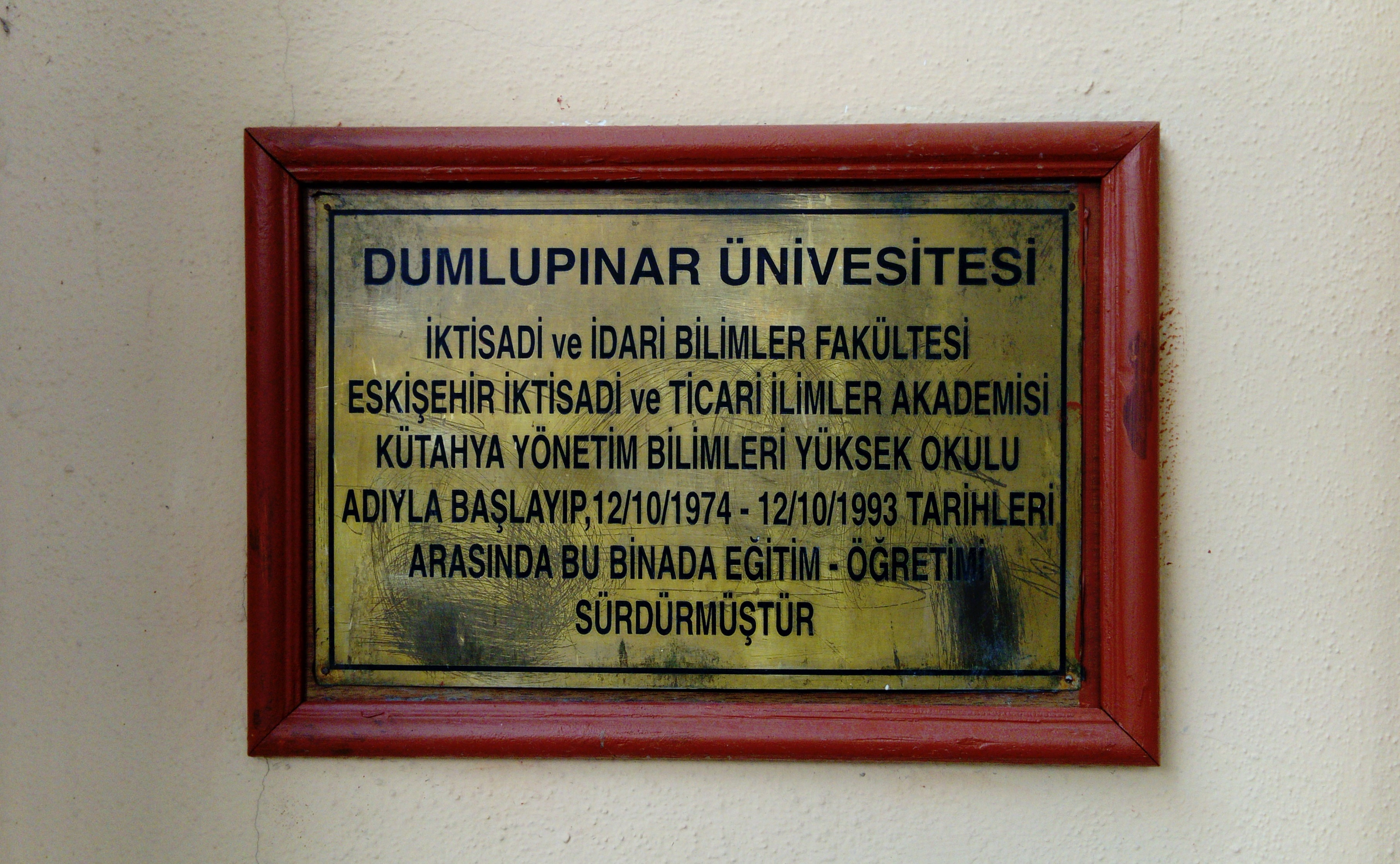 Kütahya Dumlupınar University's first building signage.